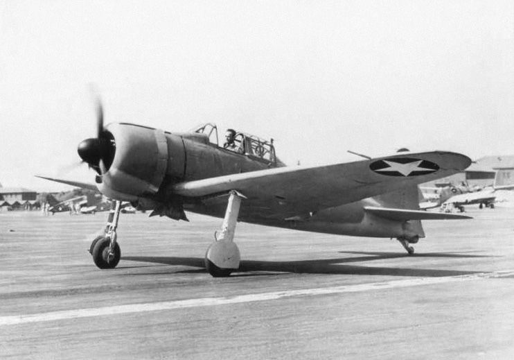 US Navy Lieutenant Commander Eddie Sanders taxis a captured Imperial Japanese Navy Zero fighter at Naval Air Station San Diego, California in September 1942. The fighter, piloted by Tadayoshi Koga, had crashed on Akutan Island, Alaska on June 4, 1942 after participating in an attack on Dutch Harbor. Koga was killed in the crash. On July 11, 1942 the US military recovered the aircraft and sent it the US where it was put into flying operation and used for intelligence purposes.